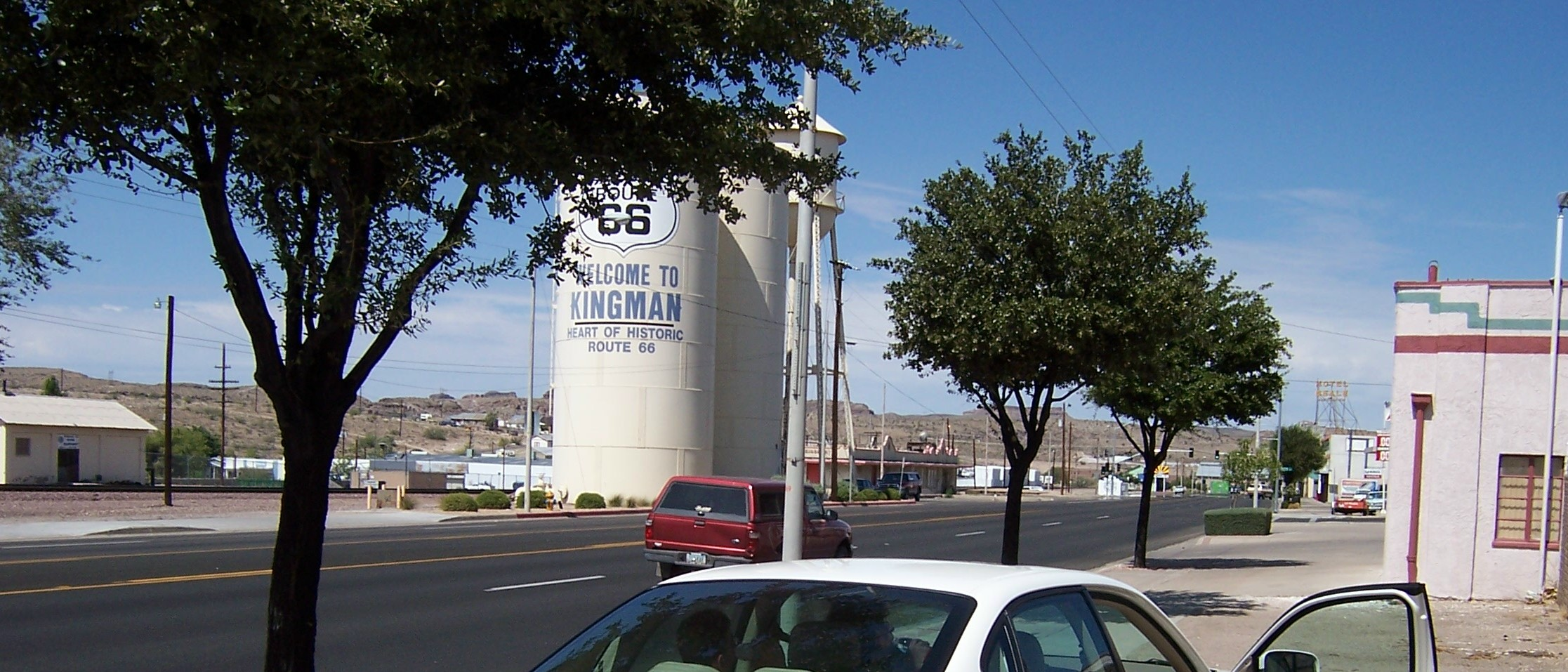 Kingman, Arizona. Route 66 water tower.